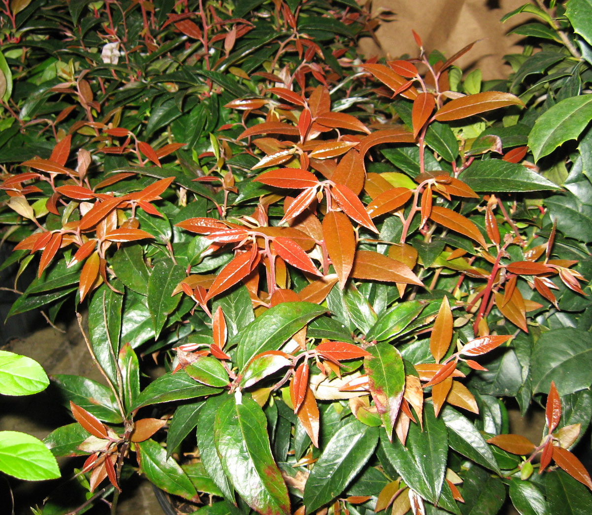 Leucothoe axillaris (Coastal leucothoe), a native plant Learn more about EPA’s Exhibit at the 2010 Philadelphia International Flower Show: (6 pp, 864K)